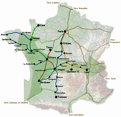 French high-speed rail project Transline, grounded on the high-speed rail projects of South Europe Atlantic and Paris-Orléans-Clermont-Lyon